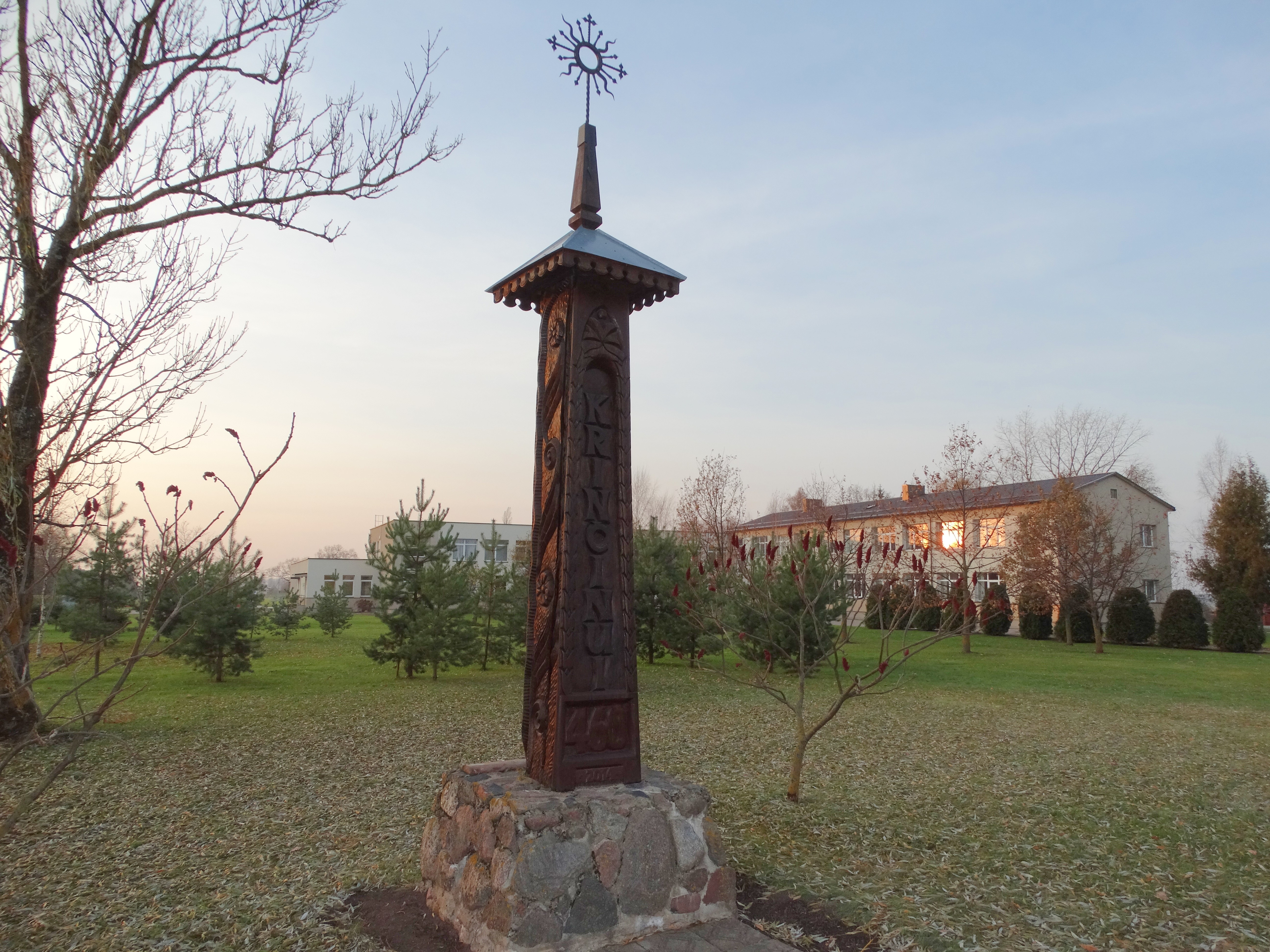 Krinčinas, Pasvalys District, Lithuania